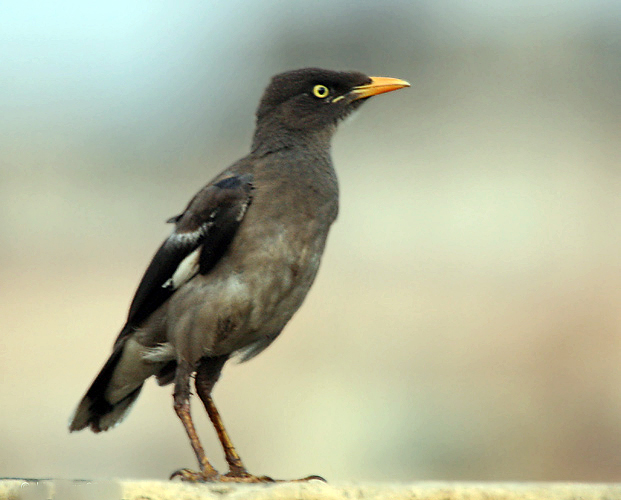 Jungle Myna Acridotheres fuscus in Kolkata, West Bengal, India.